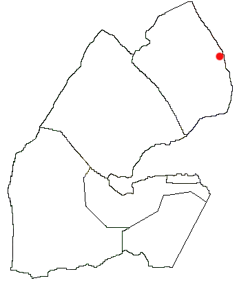 Khor Angar, Djibouti Location Map.